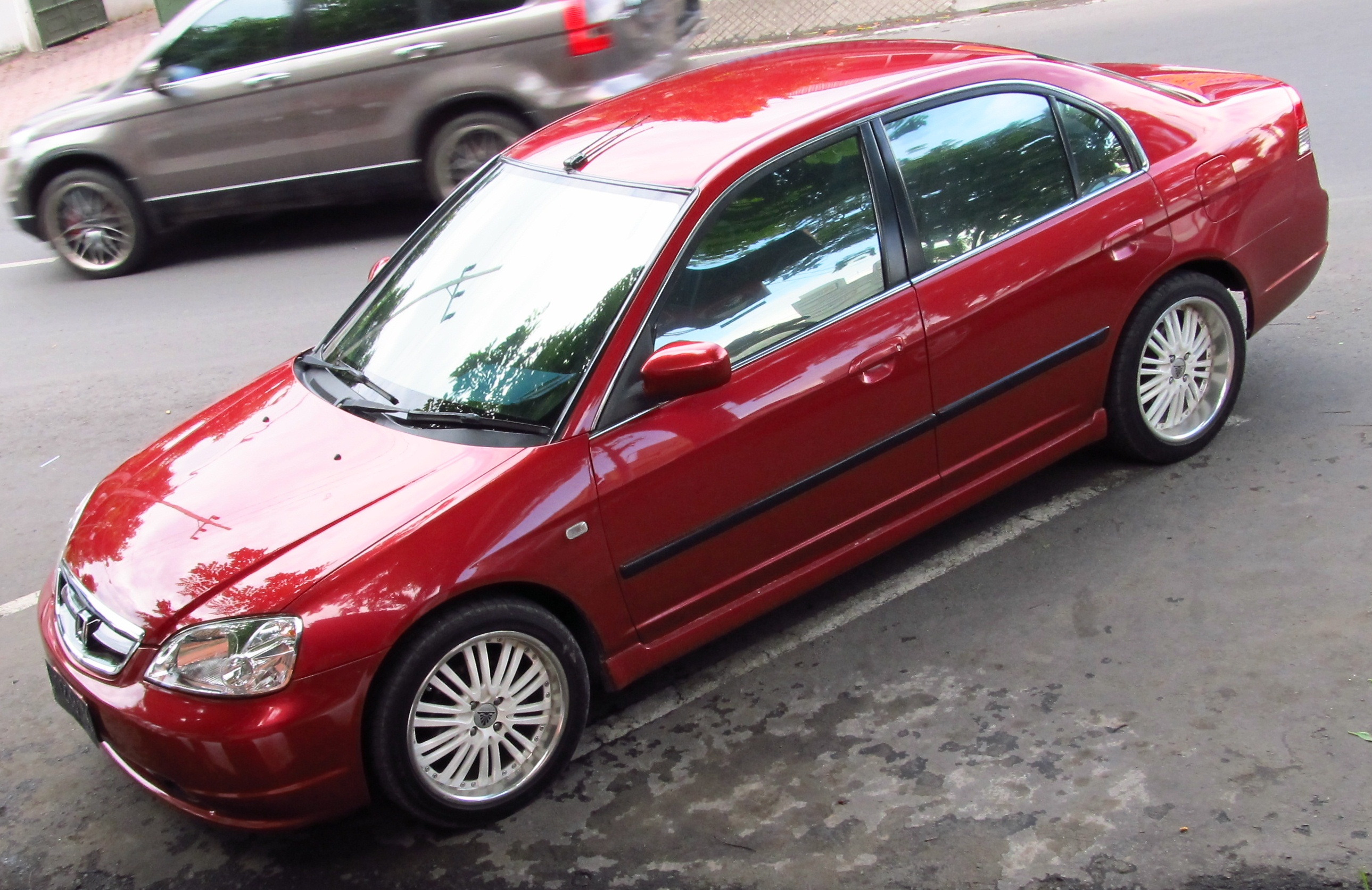 '03 Honda Civic Sedan photographed in Kediri, East Java, Indonesia